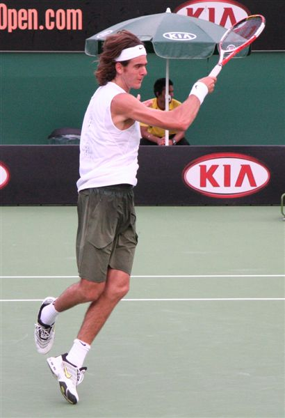 Juan Martín del Potro at the 2007 Australian Open